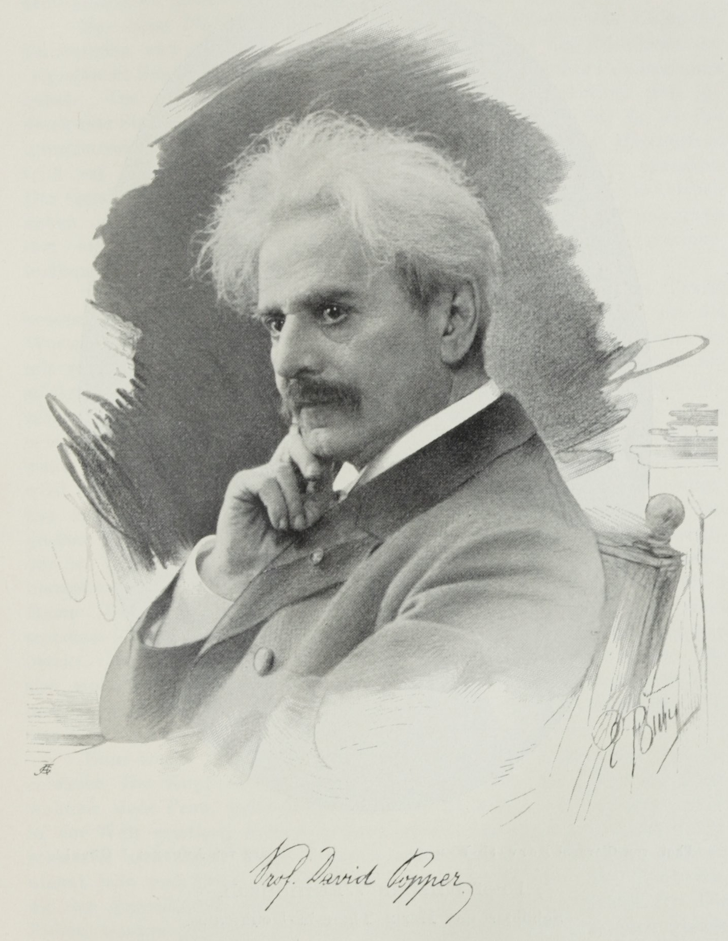 David Popper (1843–1913), Bohemian cellist and composer.This photogram was shown in the exhibition of the Photographic Society in the Imperial Royal Museum of Art and Industry in 1904.